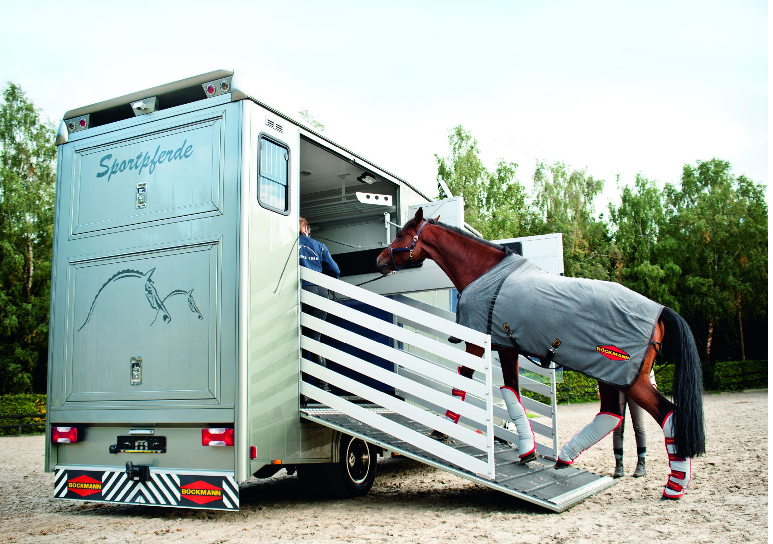 Böckmann horse truck